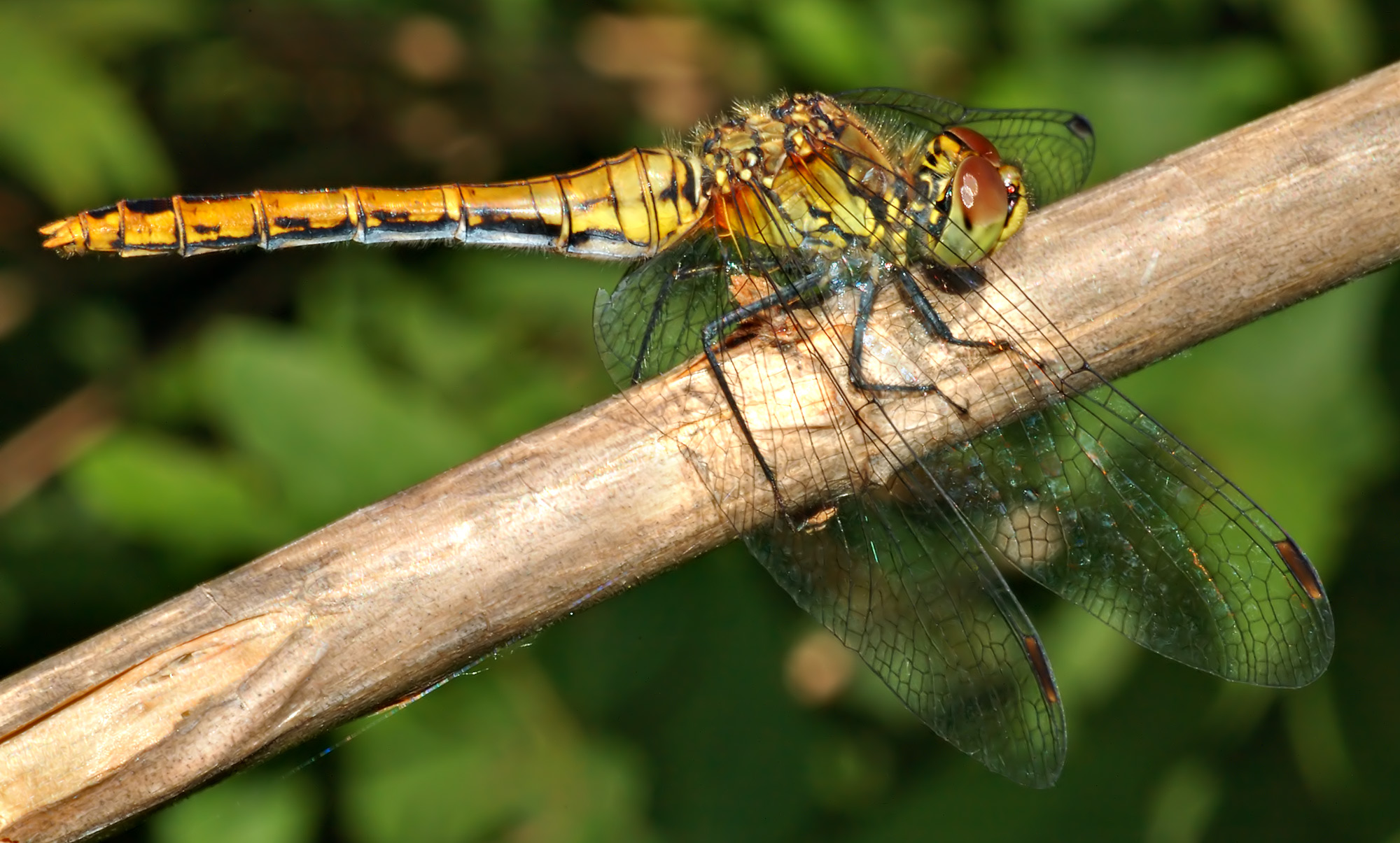 This image shows a female Ruddy Darter (Sympetrum sanguineum).